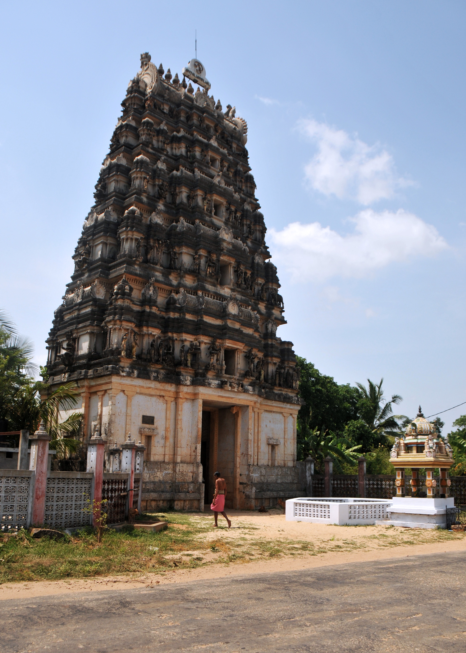 Maavittapuram Kandaswamy temple. Constructed in the 7th century. Used to be the tallest structure in Jaffna peninsula.